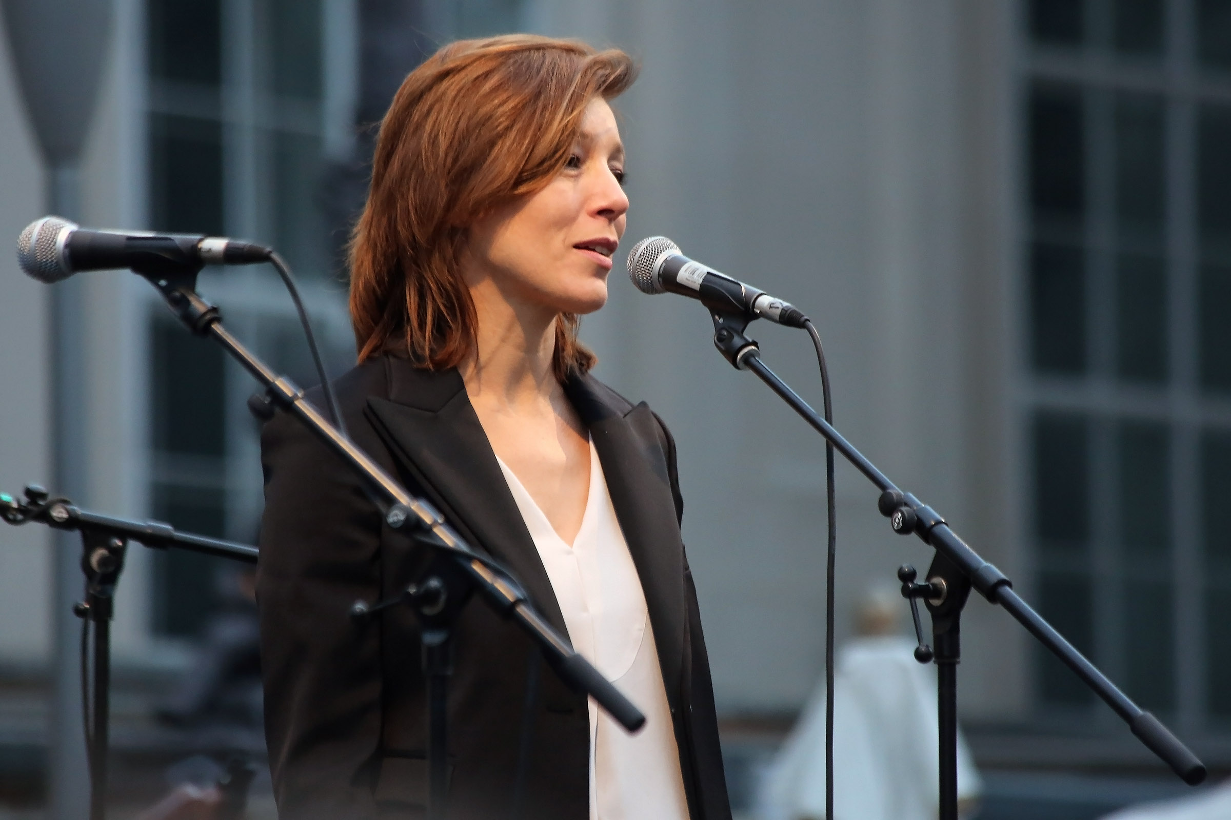 Clarissa Stadler, opening of o-töne 2013 at Museumsquartier in Vienna.